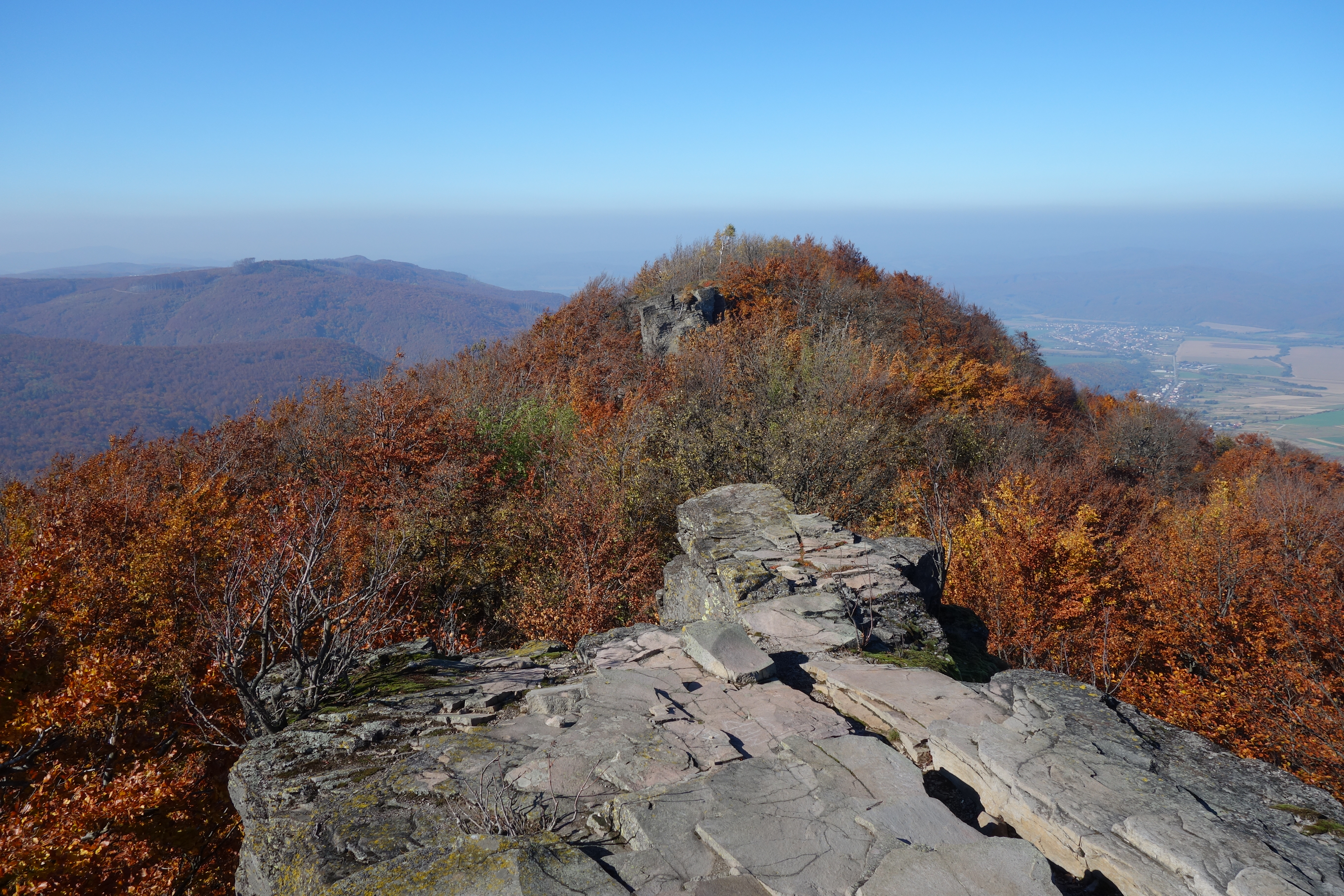 View of the Big Sninský kameň from the Small Sninský kameň in autumn This is a photography of Natura 2000 protected area with ID SKUEV0209